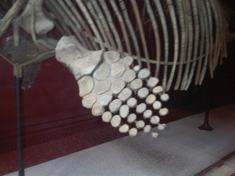 The fin-like limb of the Ophthalmosaurus icenicus reconstruction at the Natural History Museum in London, England.